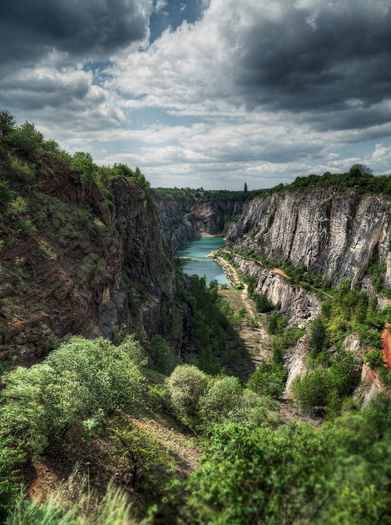 In Czech "Velka Amerika".